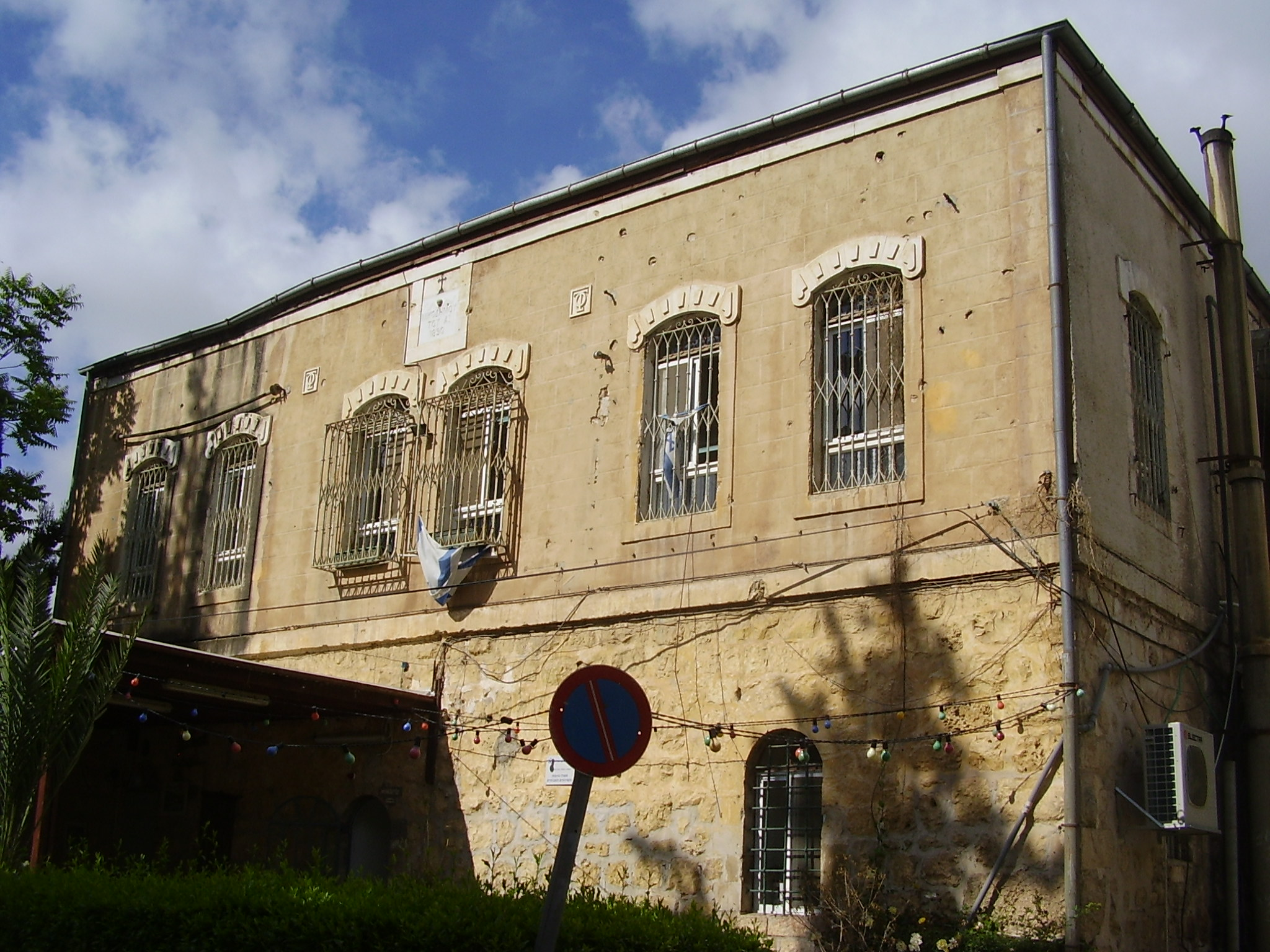 Greek Patriarch residence in St. Simon, Katamon, Jerusalem